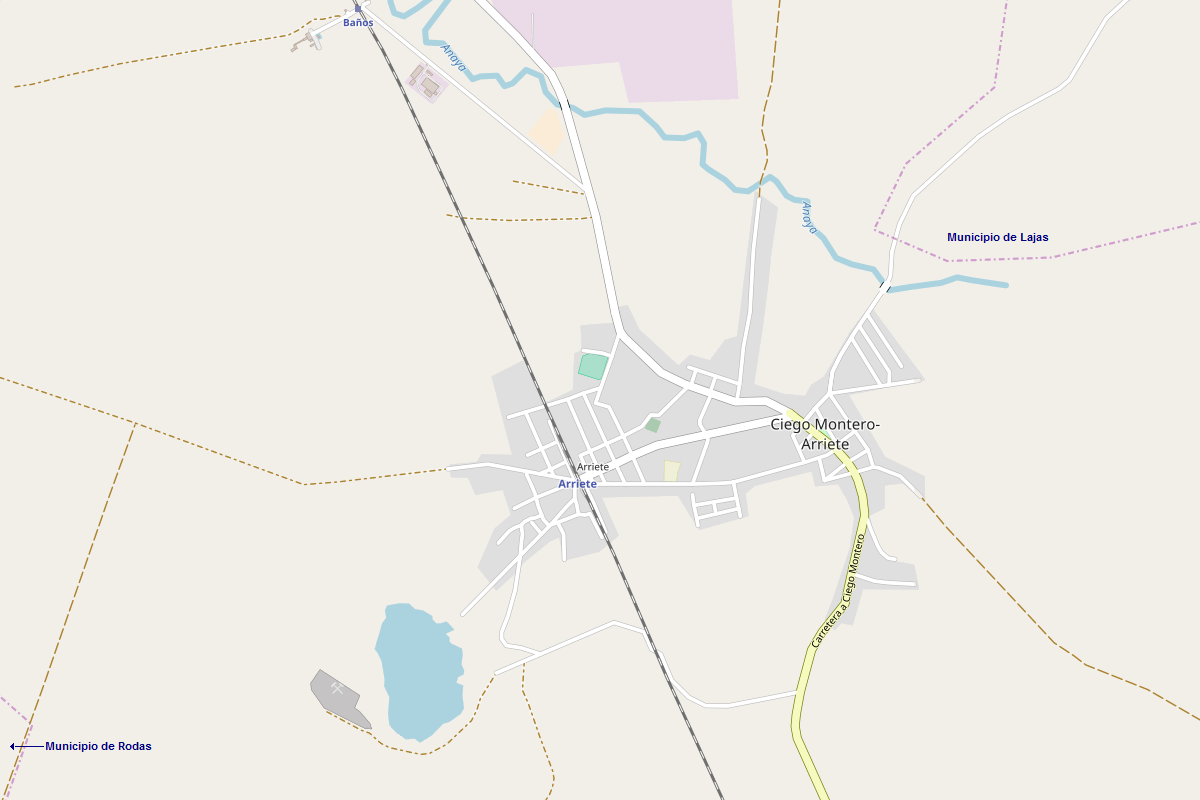 This map may be incomplete, and may contain errors. Don't rely solely on it for navigation.